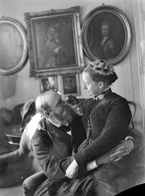 Julie Munch (1843–1928) and her husband Jens Gram (1840–1912). Photo 1910.